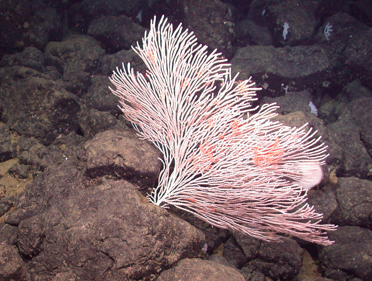 Primnoid coral (Parastenella sp.) on the Davidson Seamount at 1922 meters. Credit: NOAA/MBARI 2006